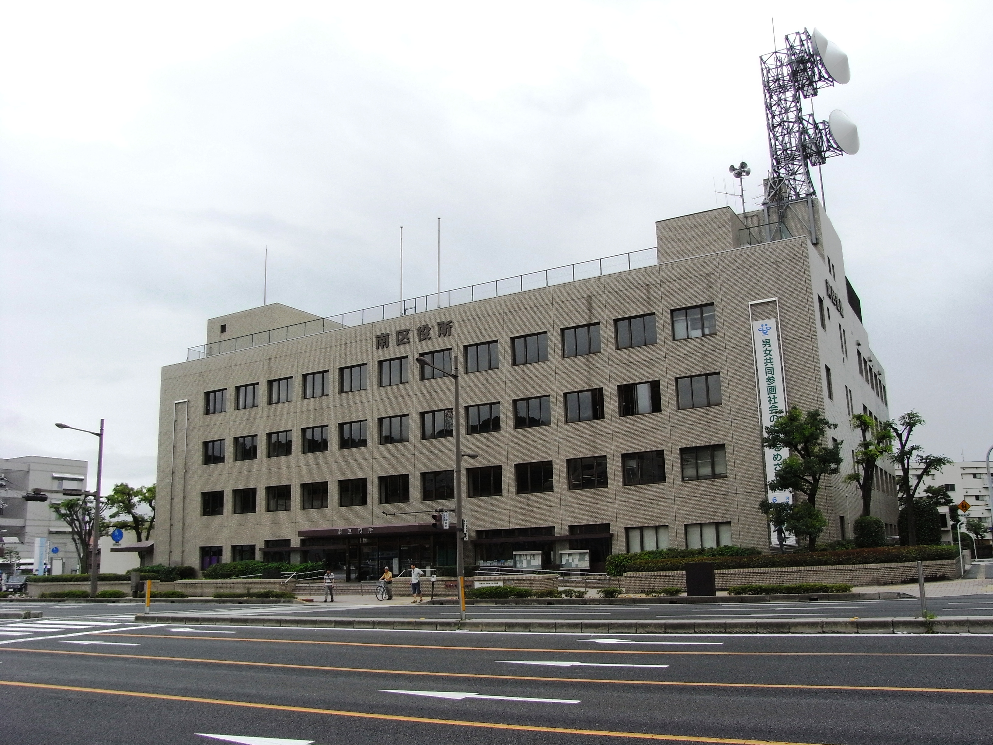 Minami Ward Office in Hiroshima City, Hiroshima Prefecture, Japan